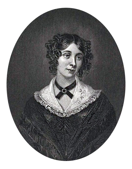 Sarah Stickney Ellis (1799–16 June 1872) was a Quaker turned Congregationalist who was the author of numerous books, mostly written about women's role(s) in society. The Wives of England, Their Relative Duties, Domestic Influence, and Social Obligations. London: Fisher, Son, & Co., 1843. [1]